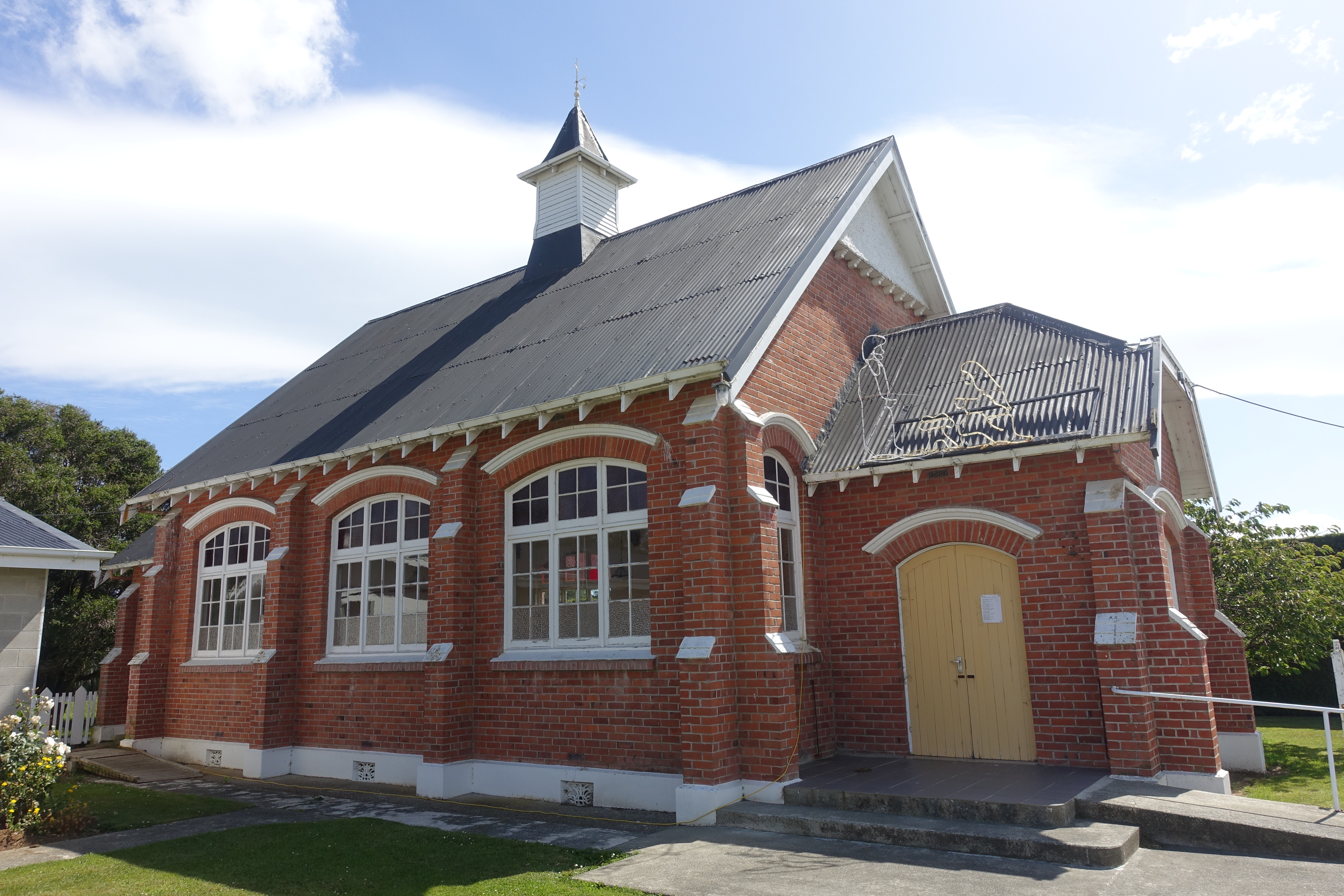 Waimatuku Presbyterian Church in 2018